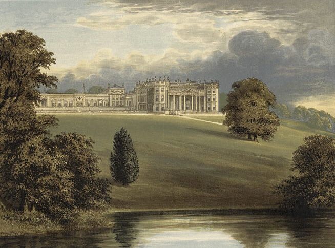 Bowood House near Calne, a view from the lake, from Morris's County Seats. The block on the right is the "Big House", which has been demolished. The wing on the left, starting with the short tower, remains. Produced for A series of picturesque views of seats of the noblemen and gentlemen of Great Britain and Ireland. With descriptive and historical letterpress by Francis Orpen Morris, 1810-1893; Fawcett, Benjamin; Lydon, Alexander Francis, 1880